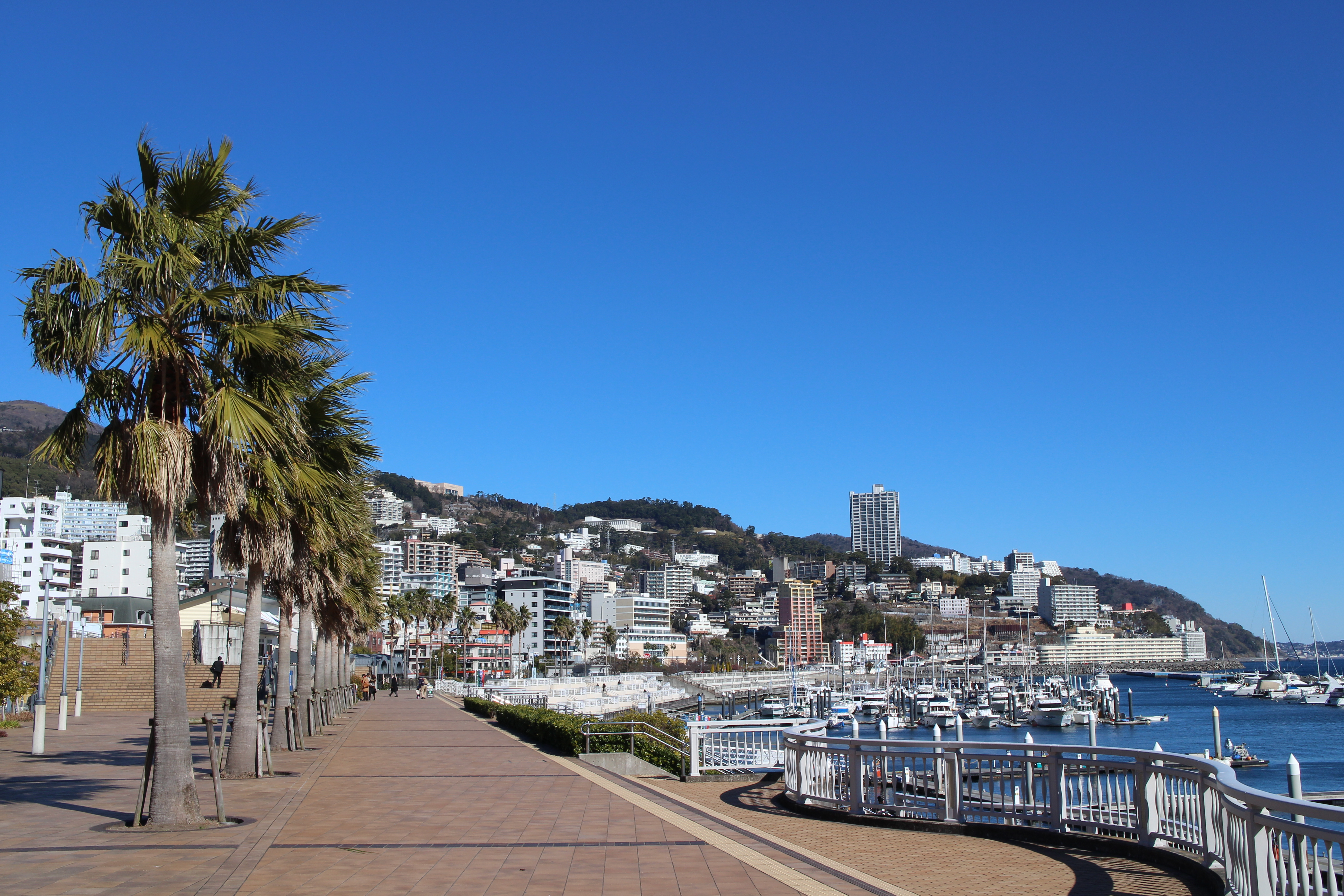 Atami City